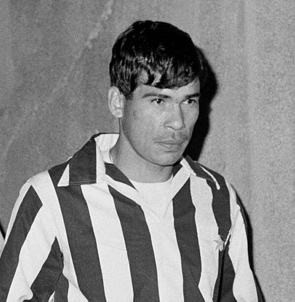 Nestor Combin, Argentine footballer, while playing for Juventus FC of Italy.